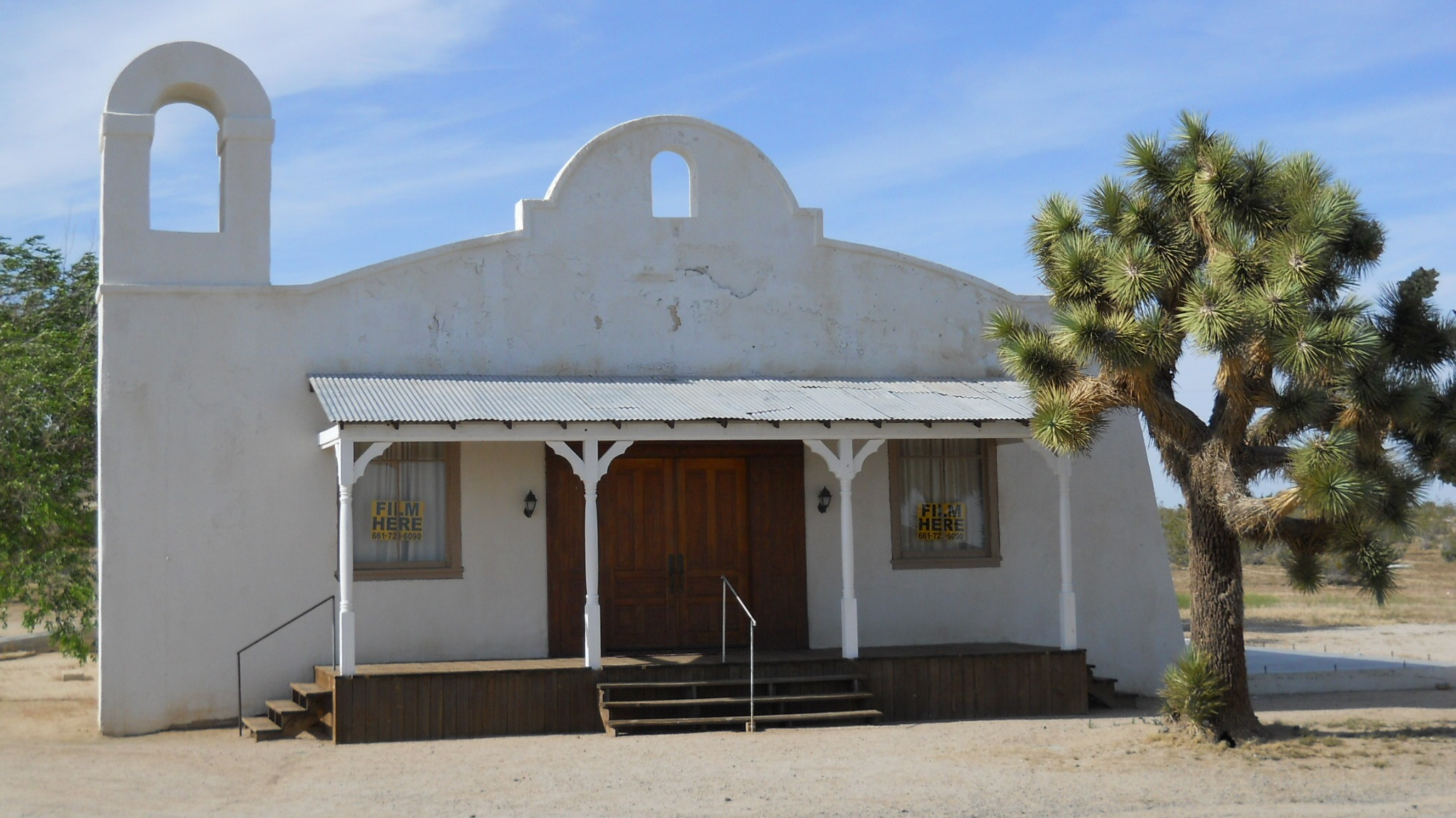 Church near Lancaster, California, used as a filming location in Quentin Tarantino's "Kill Bill" films, Volumes 1 & 2 (2003, 2004).